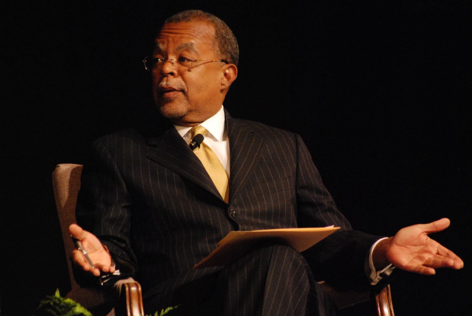 Photo of Henry Louis Gates, Jr.